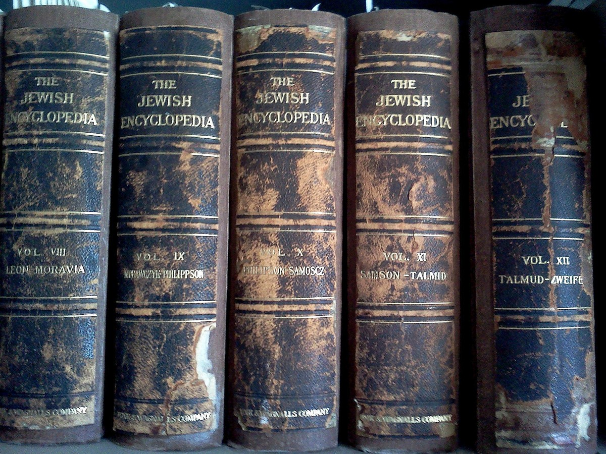 Volumes VIII-XII of The Jewish Encyclopedia published between 1901-1906 in USA